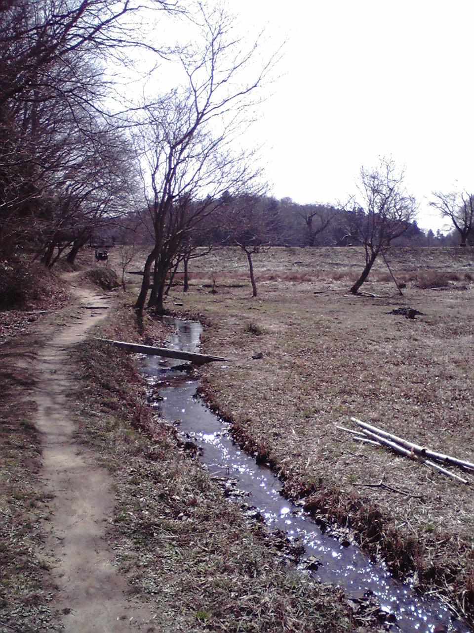 Natural beauty of Japan.